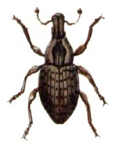 Barynotus obscurus, from Calwer's Käferbuch, Table 31, Picture 17. Taxonomy was updated to 2008, using mostly the sites Fauna Europaea and BioLib. Please contact Sarefo if the determination is wrong!